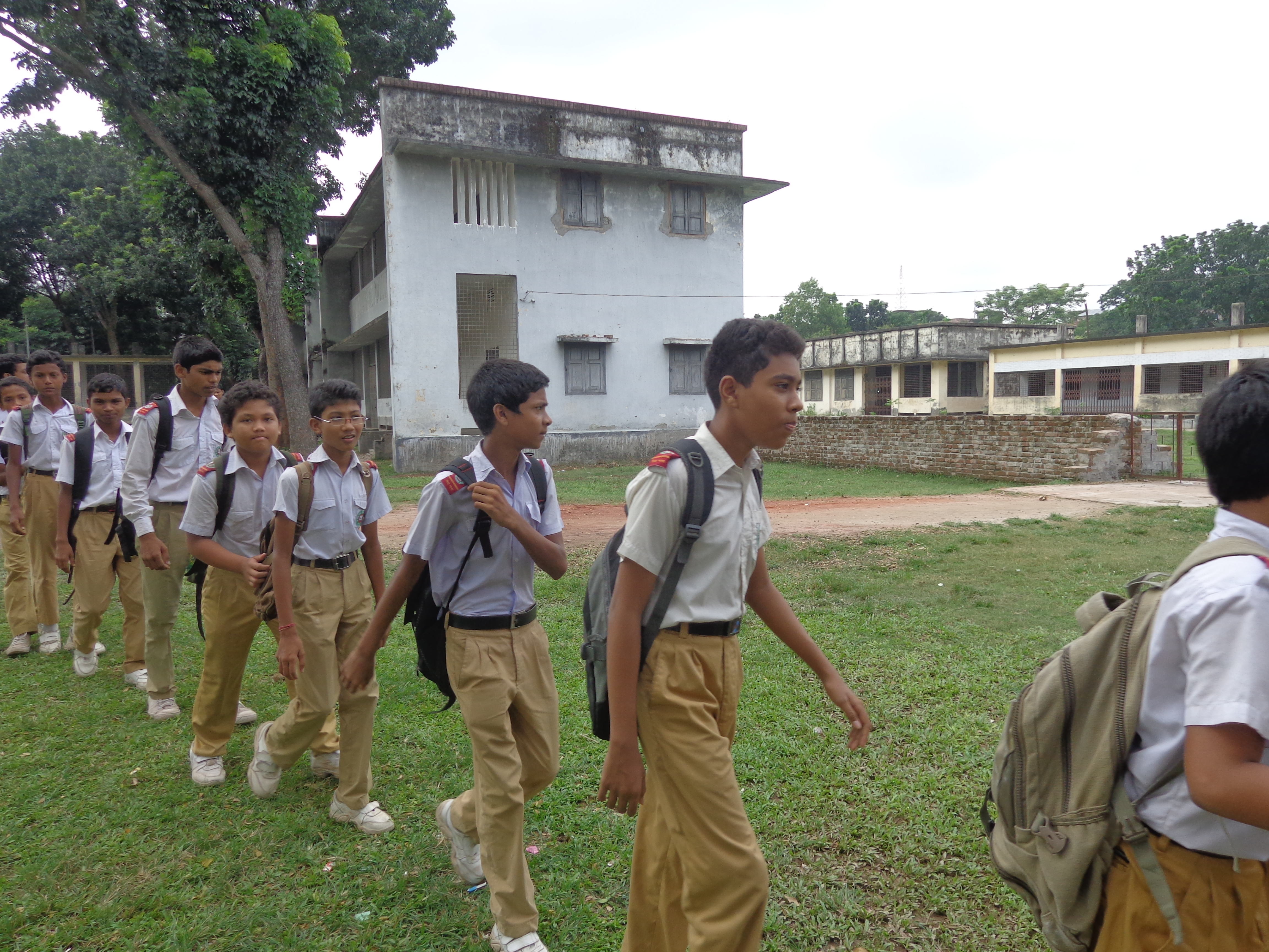 Rangpur Zilla School students in school campus